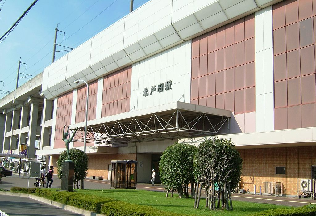 West side of Kita-Toda Station on the JR Saikyo Line